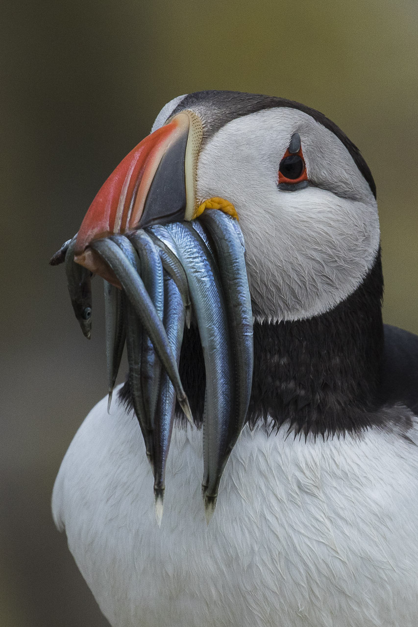 Atlantic Puffin - Farne Is - FJ0A4858